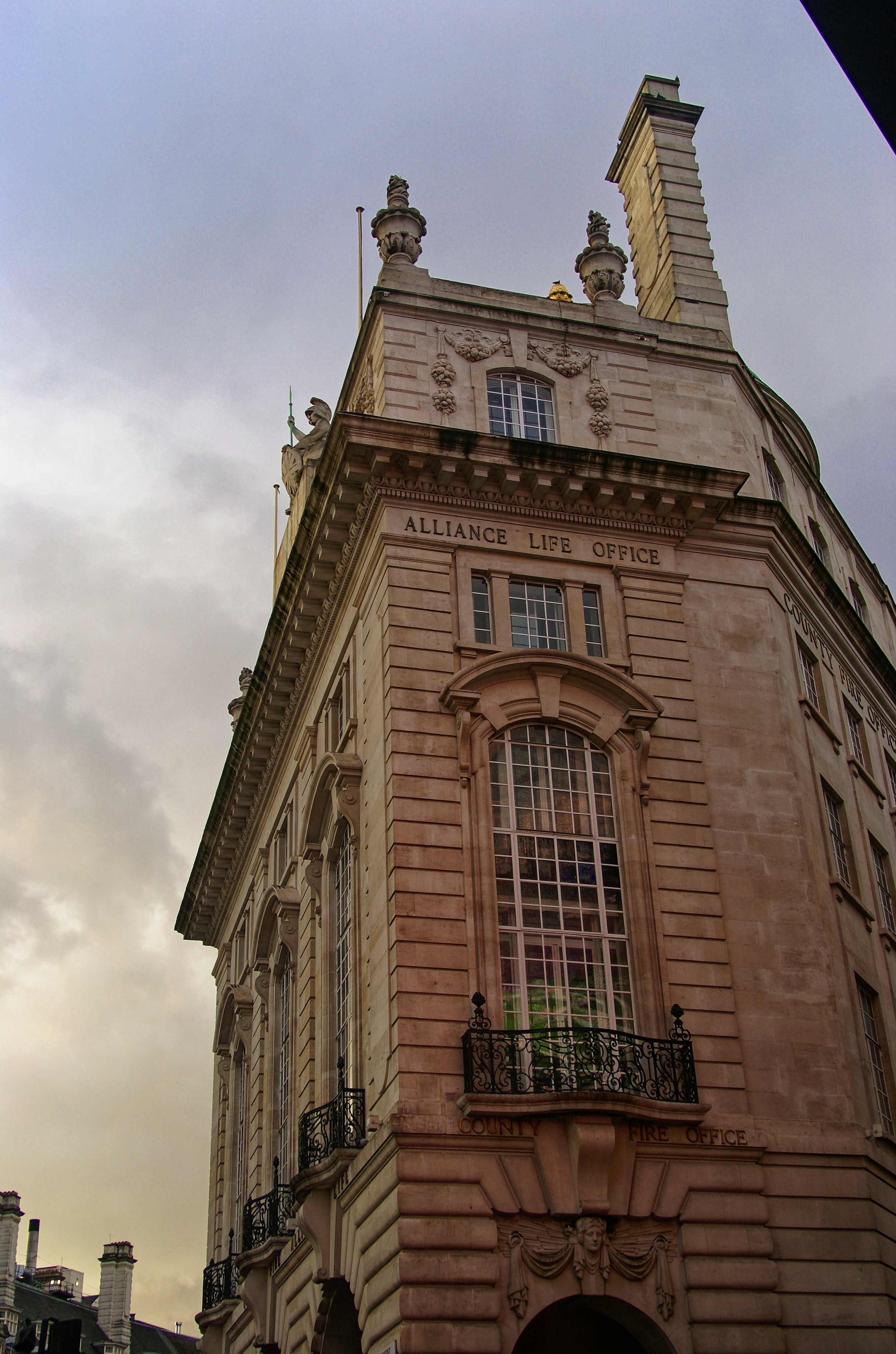 London - Piccadilly Circus - County Fire Office 1913-1930 Sir Reginald Blomfield